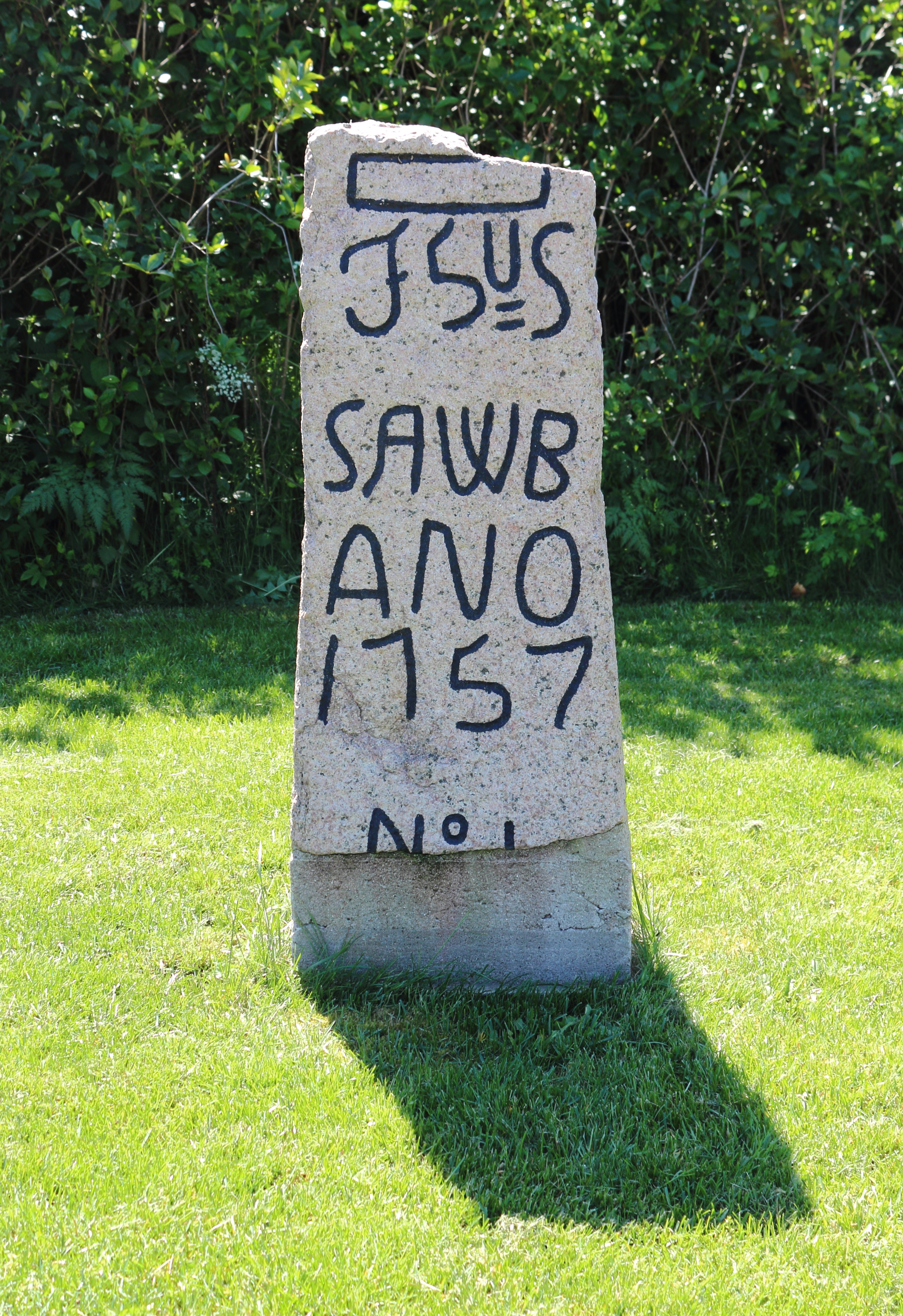 A so-called "vildtbanesten" located at Christianshede Church, Denmark used for marking an area for hunting by the king in Denmark. Such areas were defined beginning in 1559. Originally, oak pillars were used for the purpose, but in 1733 these were deteriorating. In 1742 the King gave permission for a replacement using stone pillars instead. These stones are produced in the periods 1743-44 and 1756-62. Meanwhile, Frederick V of Denmark ascended to king of Denmark-Norway in 1746. This stone has been made in Sdr Vissing and Addit in 1757, and was transported from Sdr Vissing in 1759. The text on the stone says F5us Fridericus Quintus : Frederick V of Denmark SAWB Silkeborg Amts Wild Bane ANO 1757 Anno 1757